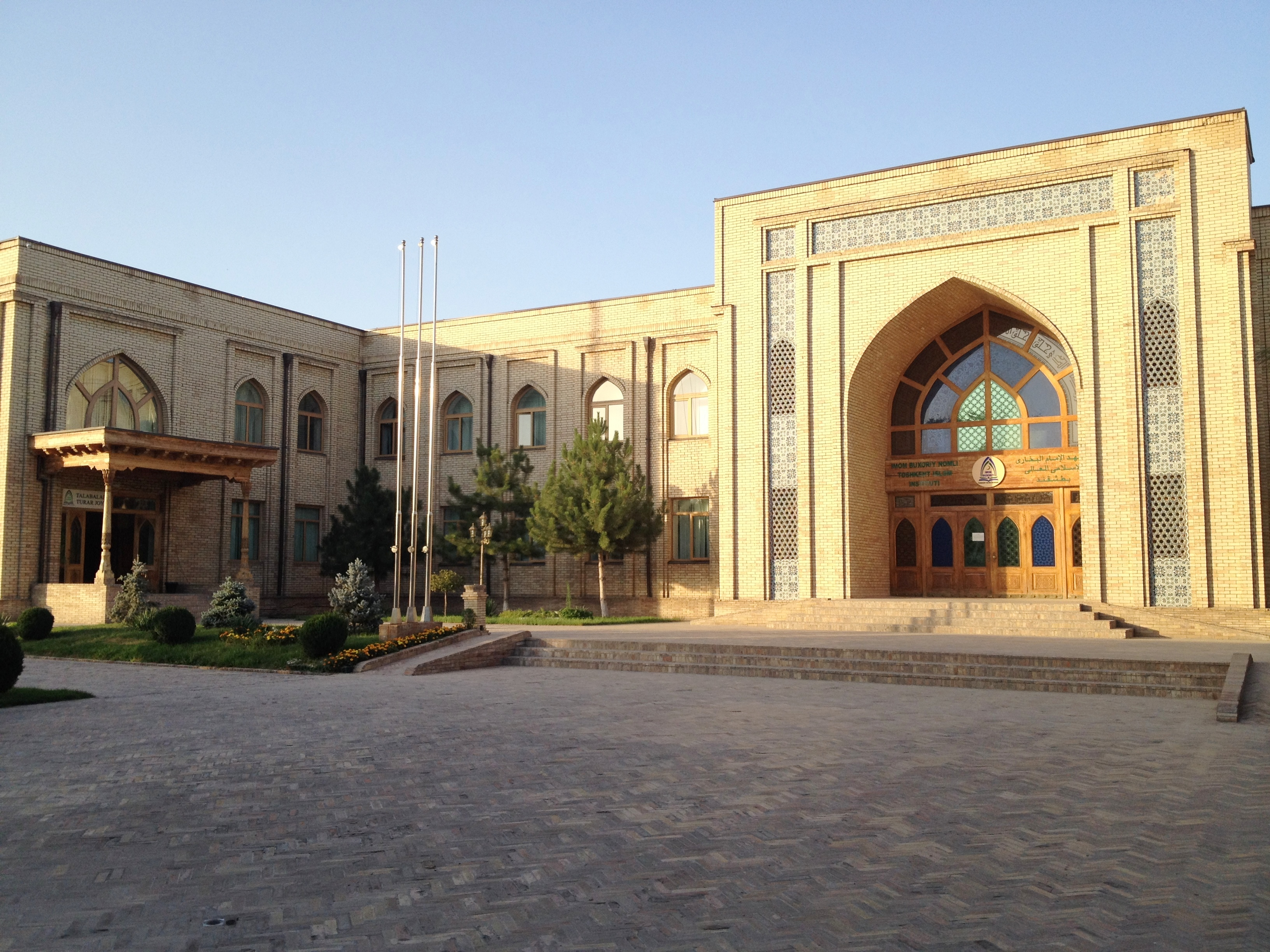 Building of Tashkent Islamic Institute named after Imam Bukhari